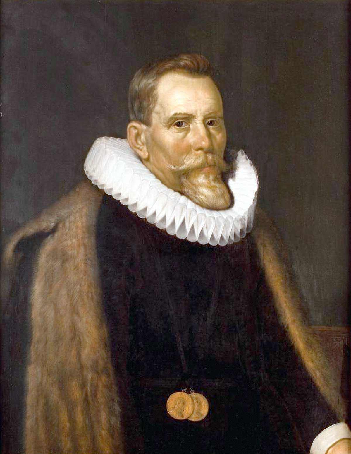 Aelius Everardus Vorstius (1565-1624) Dutch Physician and Botanist